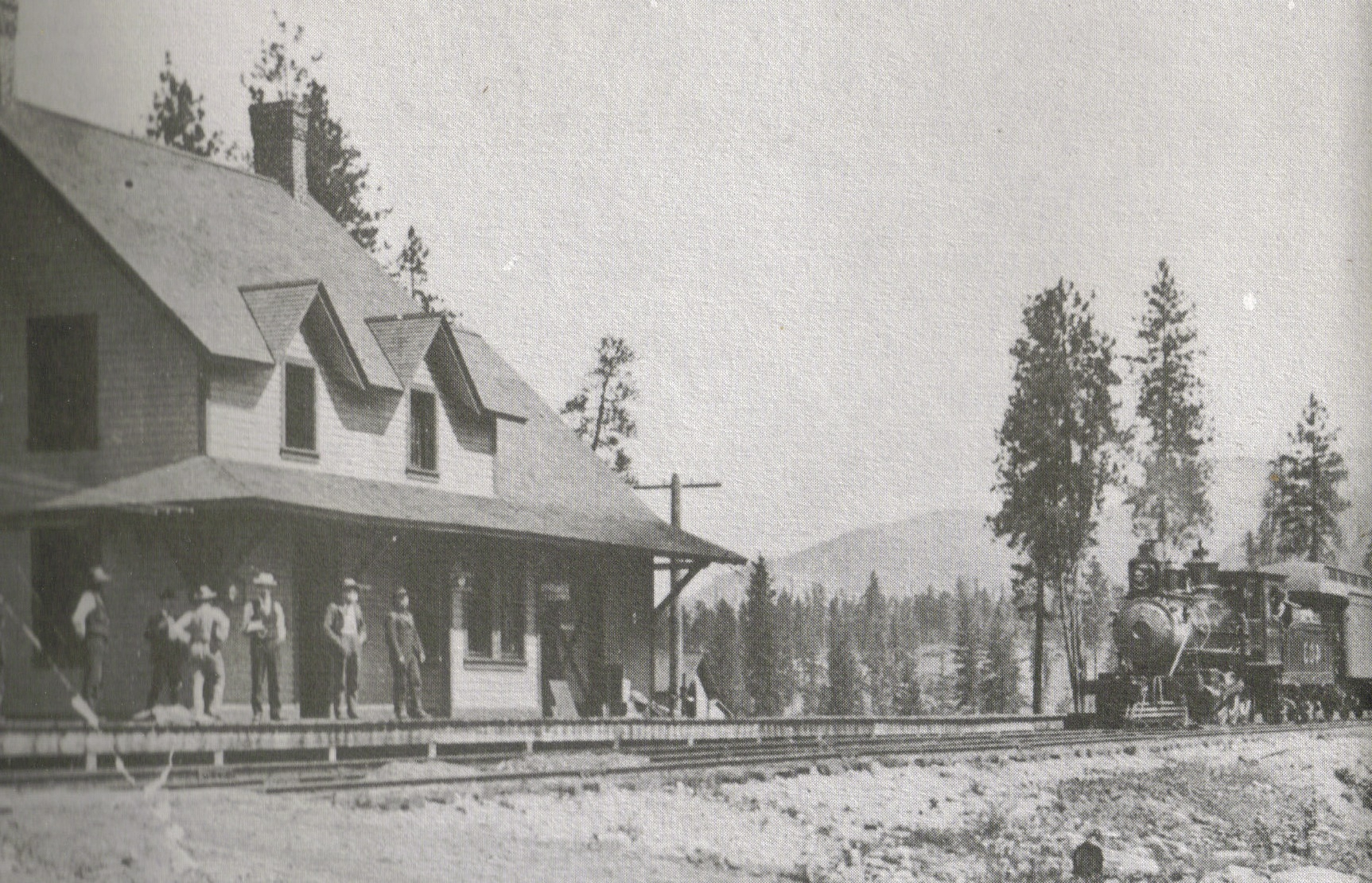 Photo taken:1899 Source:scanned from